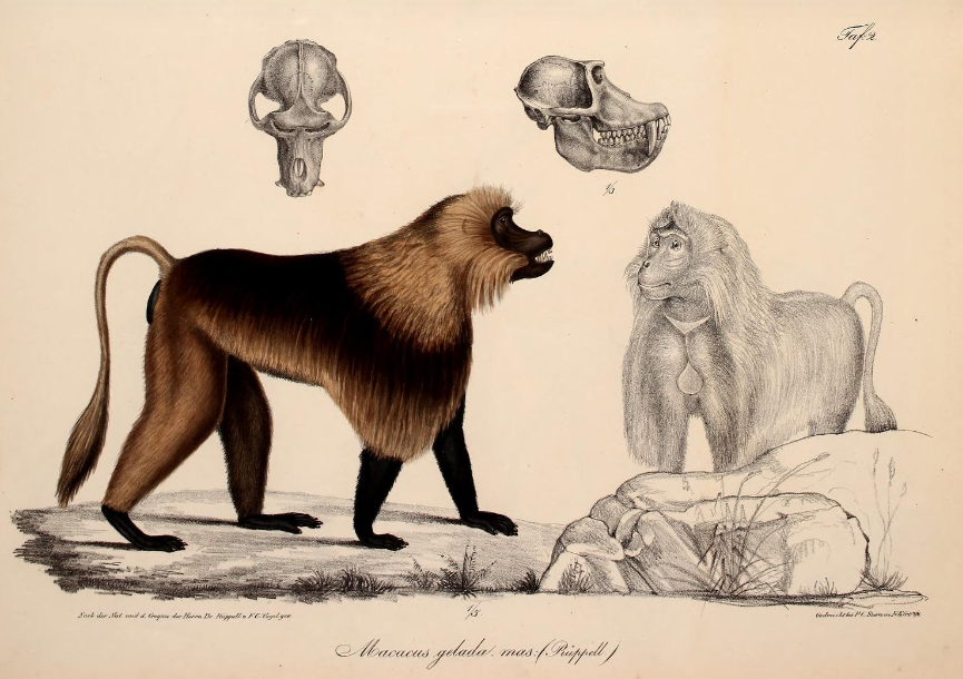 Engraving of gelada baboon.